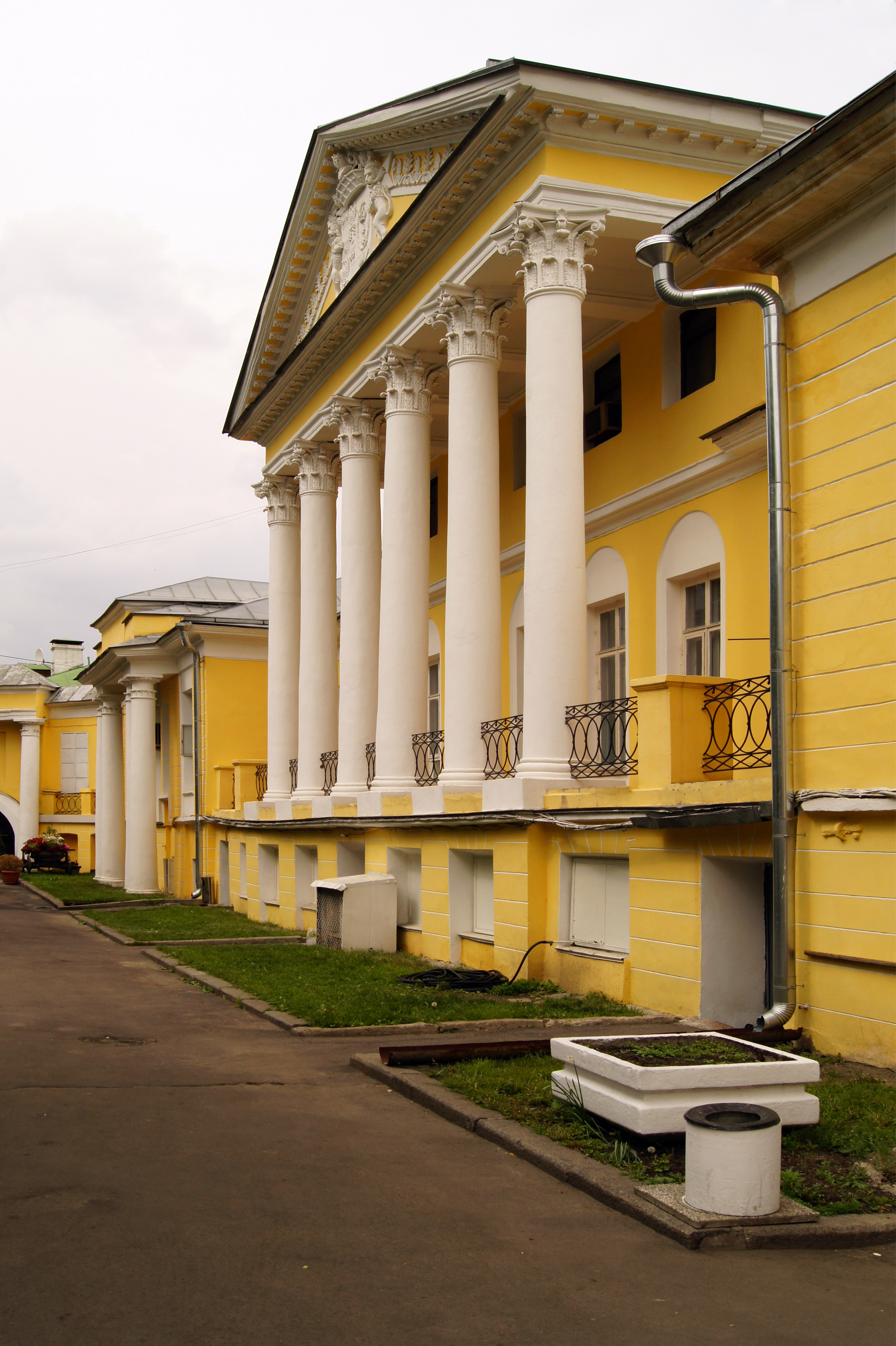 Moscow Povarskaya Street 52